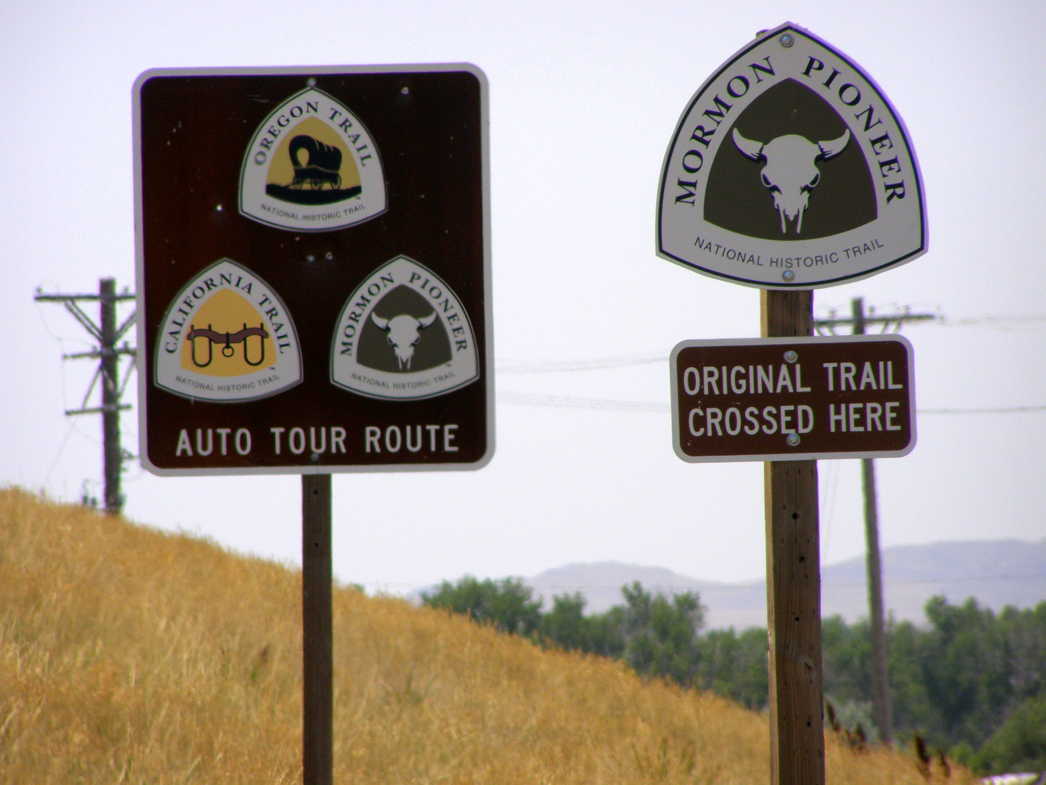 Symbol used to designate the National Trails System. Each National Trail has a separate sign similar in style